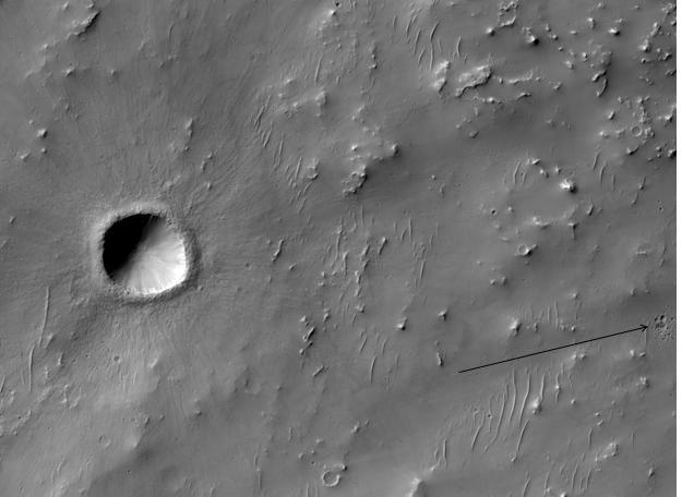 Dennin Crater Floor, as seen by hirise. Location is 17.5 degrees south latitude and 34 degrees east longitude. Image was taken by the Mars Reconnaissance Orbiter's HiRISE. The HiRISE camera was built by Ball Aerospace and Technology Corporation and is operated by the University of Arizona. Image courtesy NASA/JPL/University of Arizona.